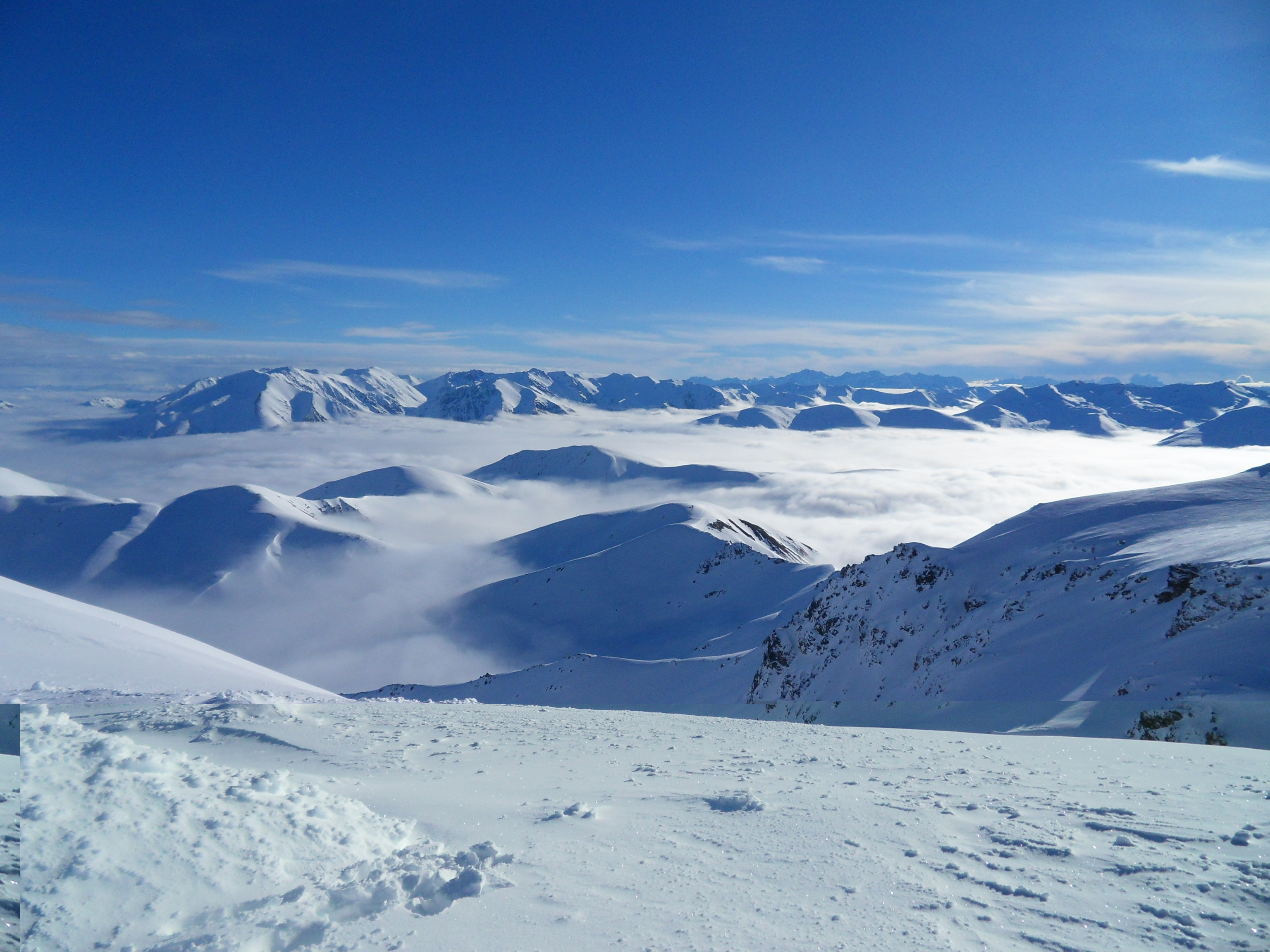 Southern Alps from Mt Hutt, New Zealand